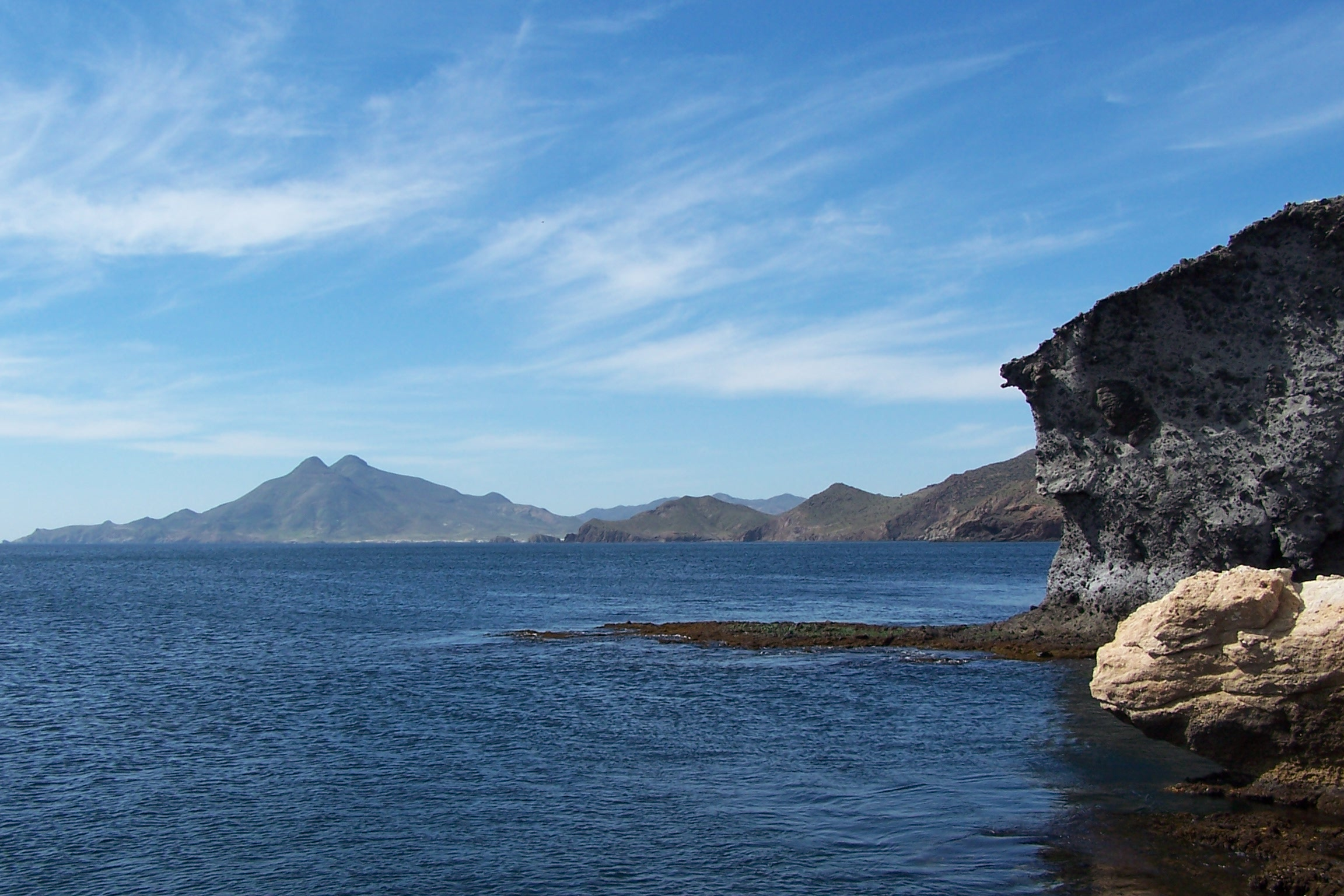 Photo of Cabo de Gata Natural Park in Almería province (Spain).